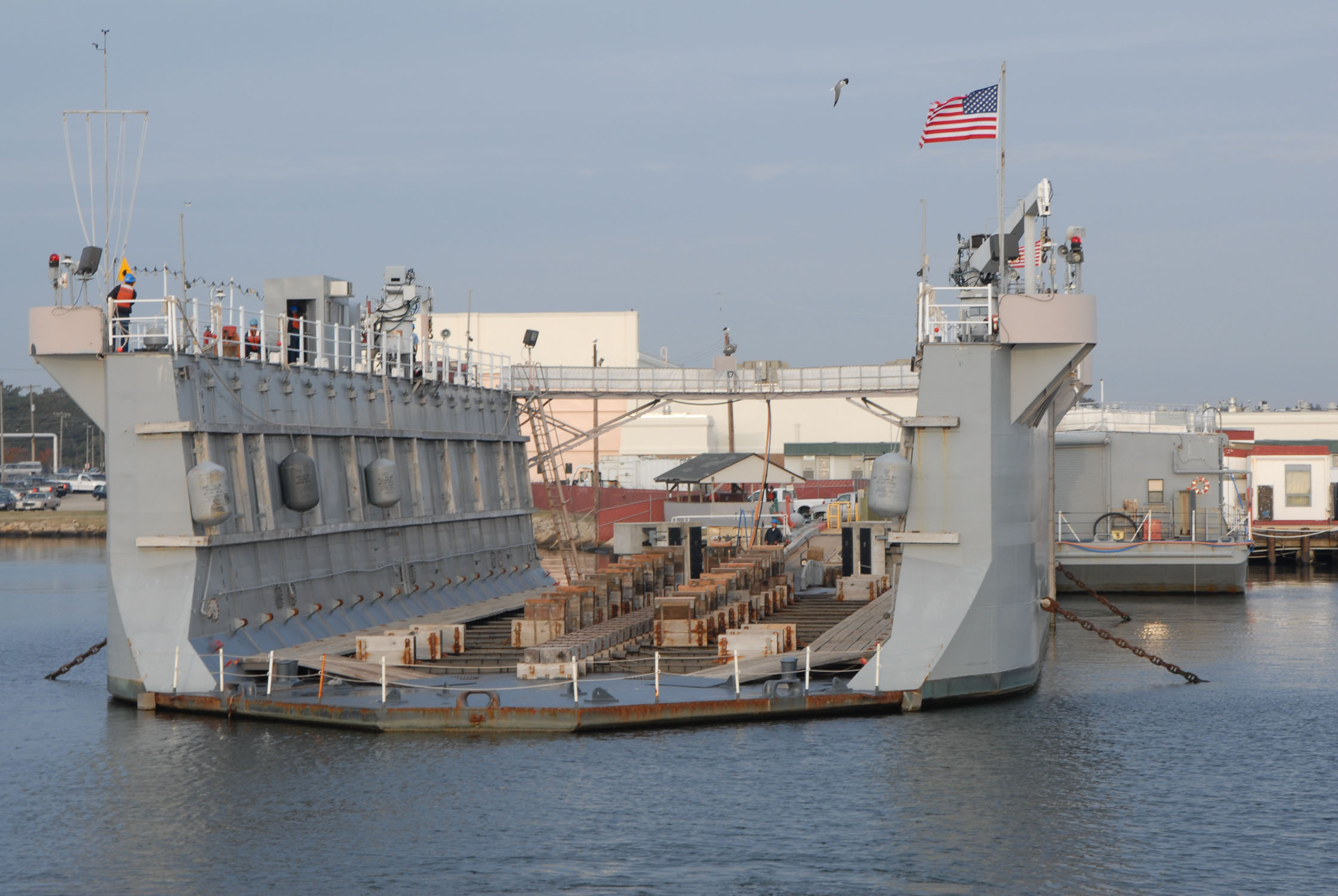 Virginia Beach, Va. (Nov. 2, 2006) - The crew of the auxiliary floating dry dock Dynamic (AFDL 6) prepares for an incoming craft. Dynamic enables small expeditionary craft to make necessary repairs and return to sea. U.S. Navy photo by Mass Communication Specialist Seaman Kelly E. Barnes (RELEASED)